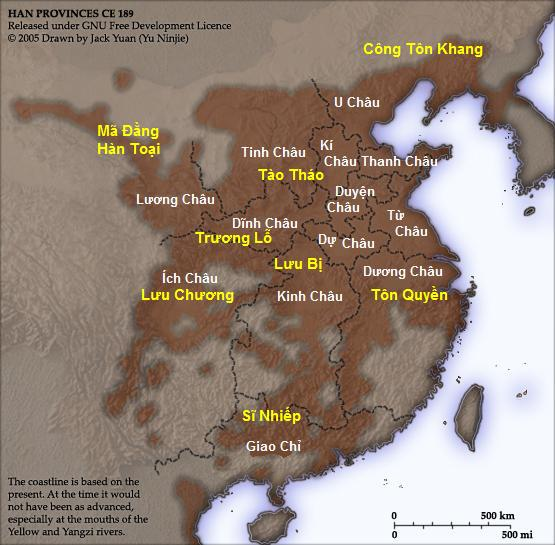 Vietnamese version of Image:Warlords in 208.jpg